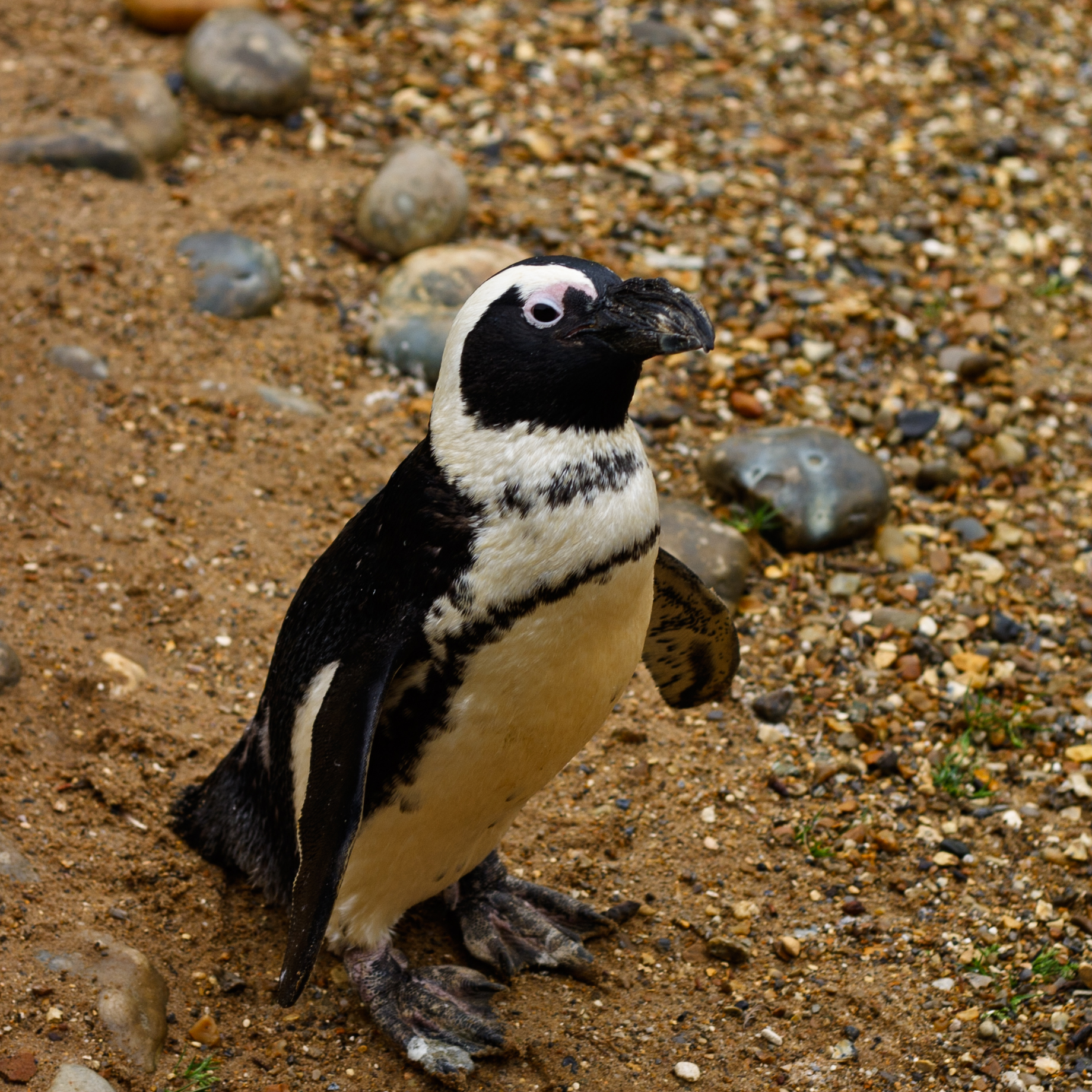 An African Penguin at Banham Zoo, Norfolk, England.